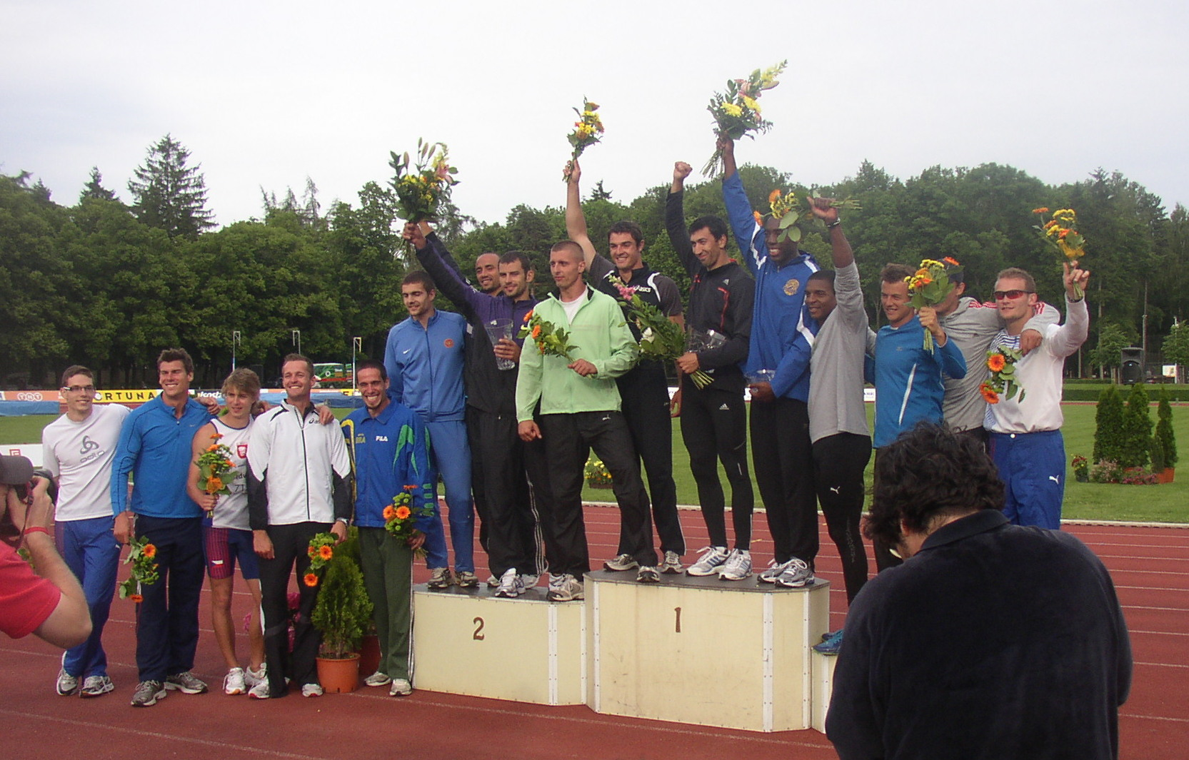 Sixteen athletes who went through the competition in men's decathlon after victory ceremony at 4th edition of the TNT - Fortuna Meeting (IAAF World Combined Events Challenge Meeting, Sletiště Stadium, Kladno, Czech Republic, 16 June 2010, 19:02).